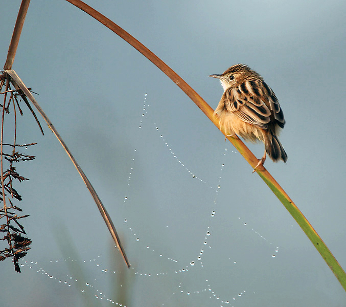 Zitting Cisticola Cisticola juncidis in Kolkata, West Bengal, India.